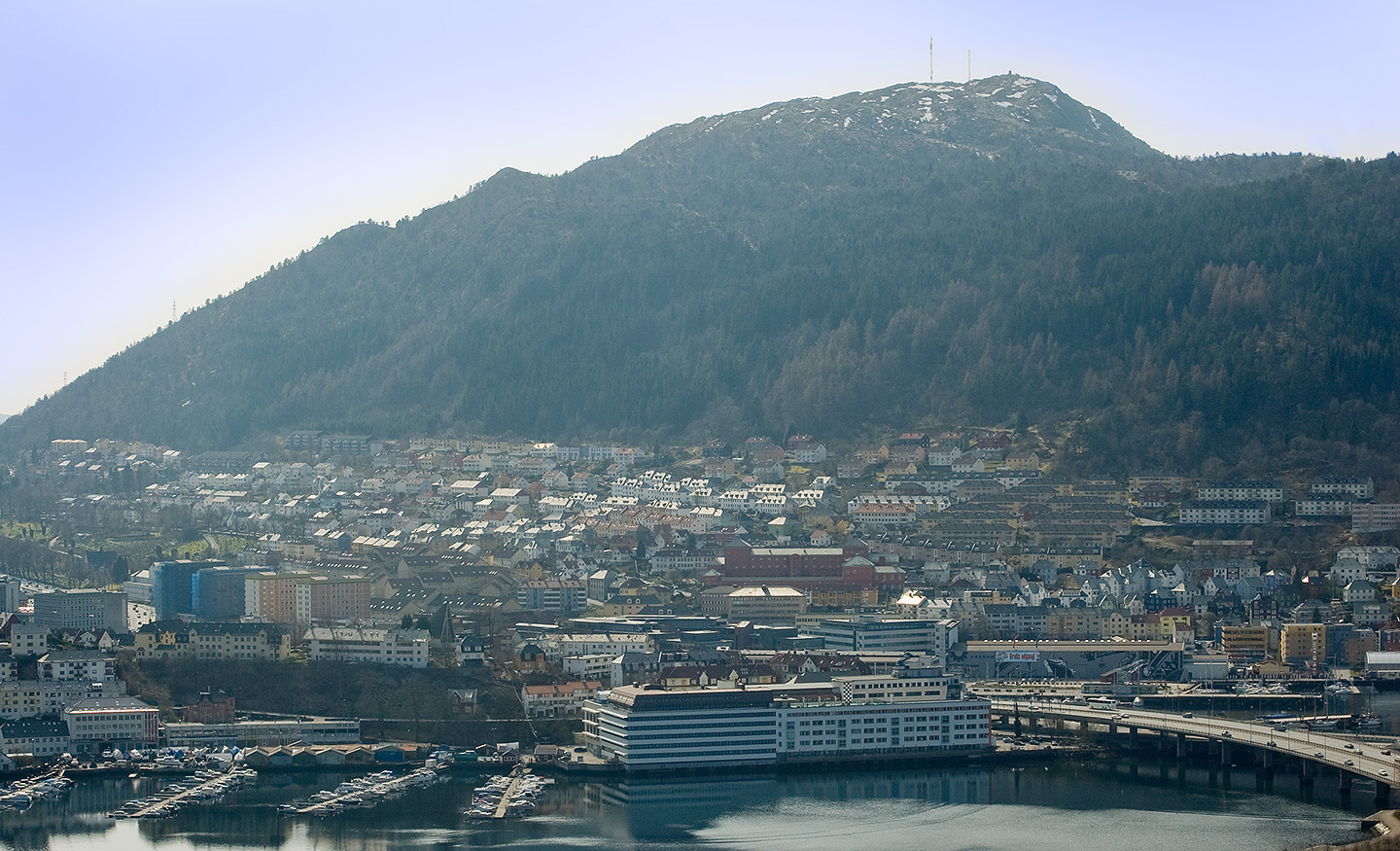 Mount Løvstakken in Bergen, Norway, seen from Fjellveien.